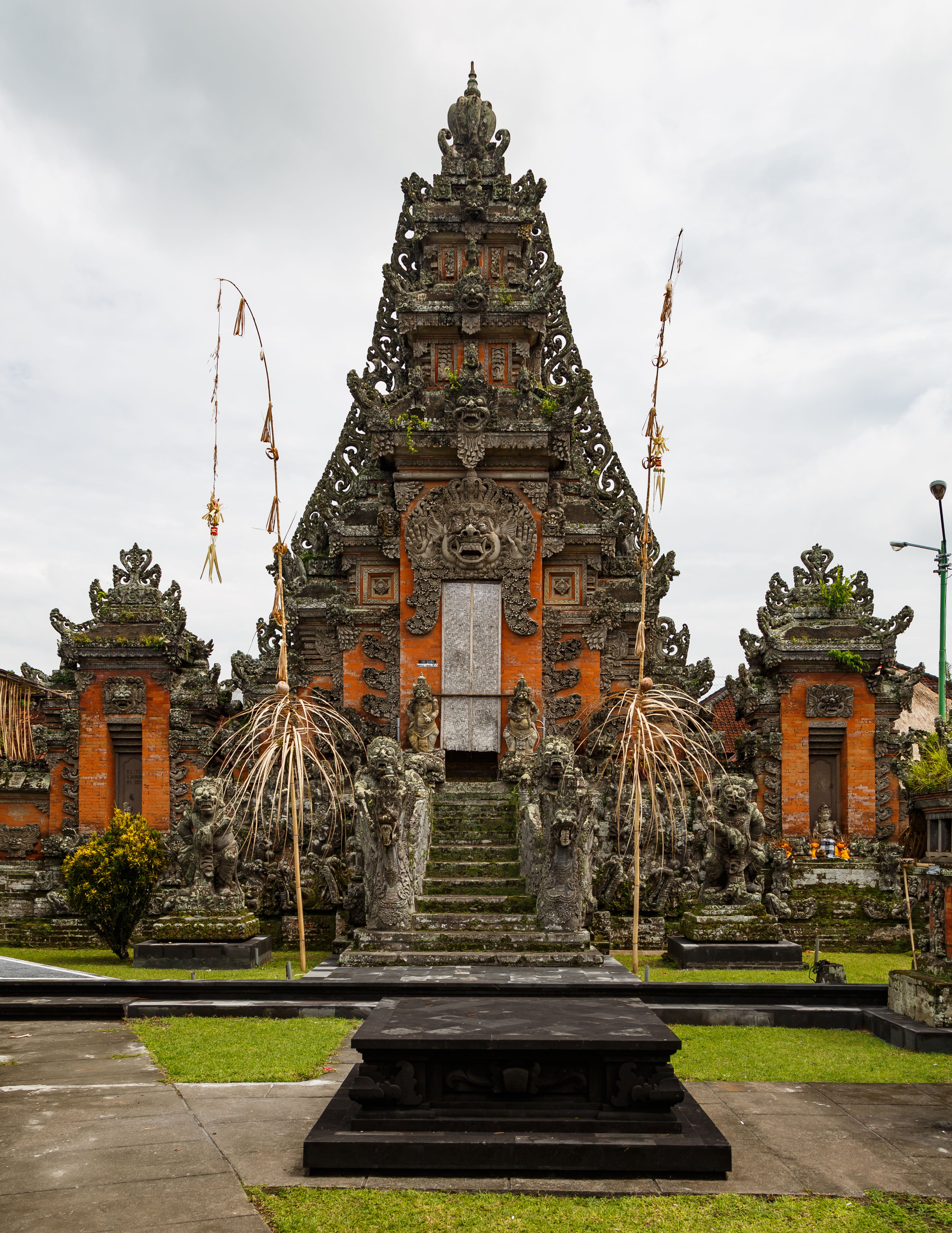 Singapadu, Gianyar, Bali, Indonesia: Pura Puseh Desa, balinese hindu temple compound.